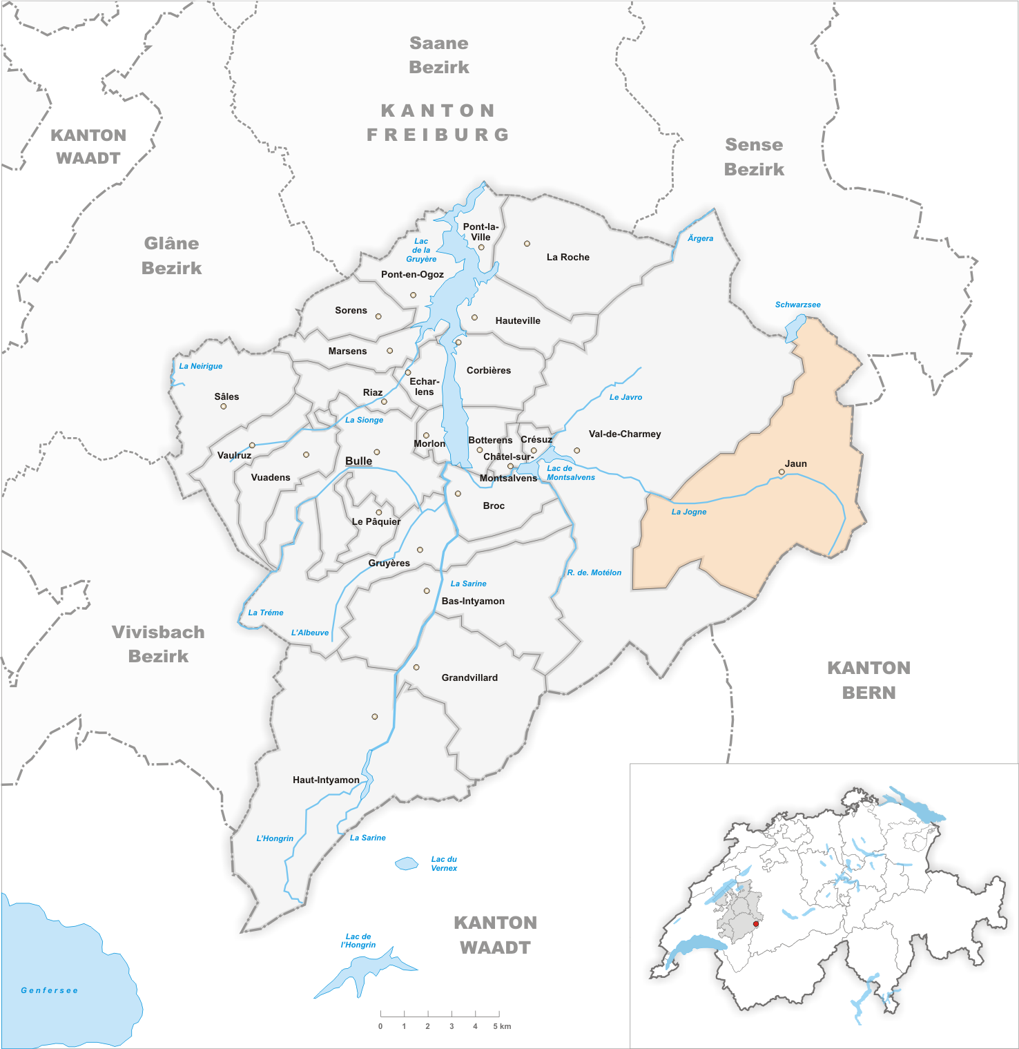 Municipality Jaun